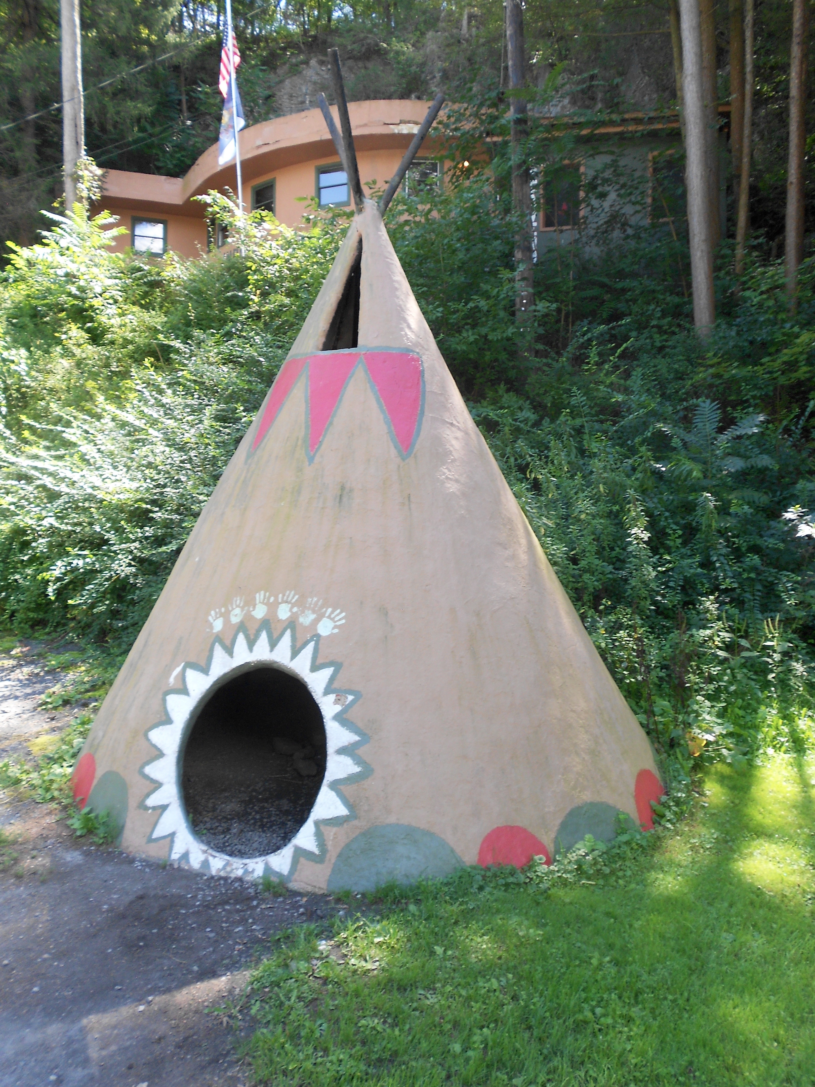 Typee made out of concrete in front of "Indian Cave" in Franklinville, Huntingdon County, Pennsylvania